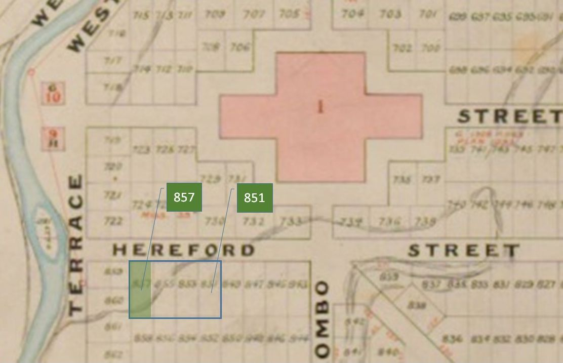 Map showing the town sections in Hereford Street and around Cathedral Square, with John Shand's sections highlighted